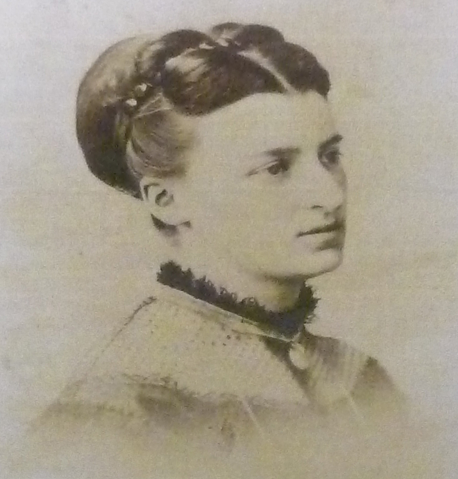 Photo (before 1900) of the Belgian painter Anna Boch (1848-1936) by unknown photographer